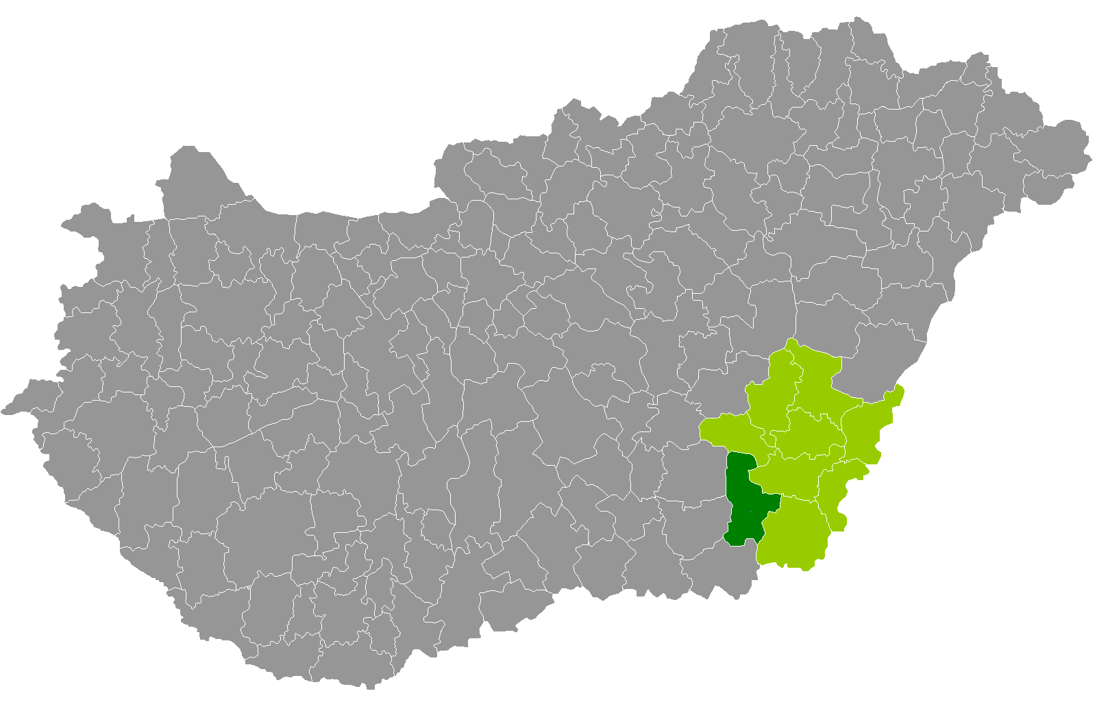 Location of Orosháza District, Békés, Hungary